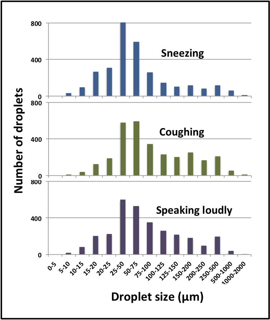 Table 1. The size distribution of the larger droplets. Showing for each type of expiratory activity the diameters of 3000 droplets calculated as half the measured diameters of the stain-marks found on celluloid slides exposed a few inches in front of the mouth.